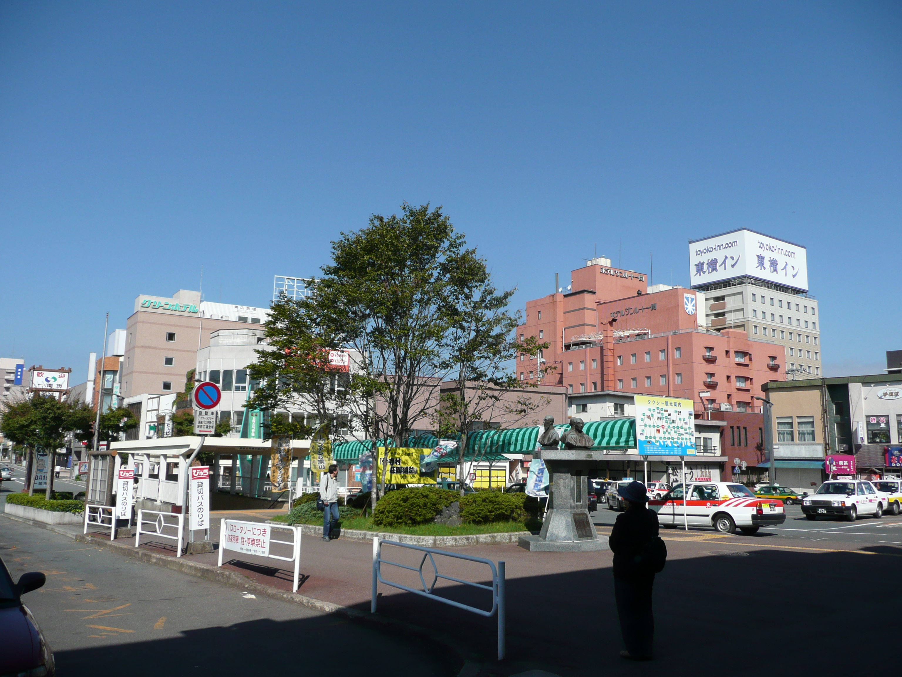 Ichinoseki Station front